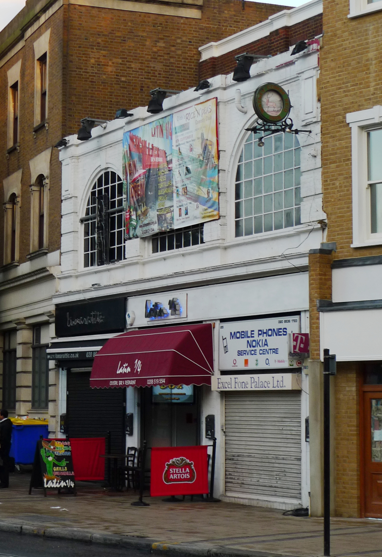 A former pub, now a bar. Address: 27 Broadway. Former Name(s): The Two Puddings. Owner: Unique (former); Watney Combe Reid (former). Links: Pubs Galore Pubs History (history)